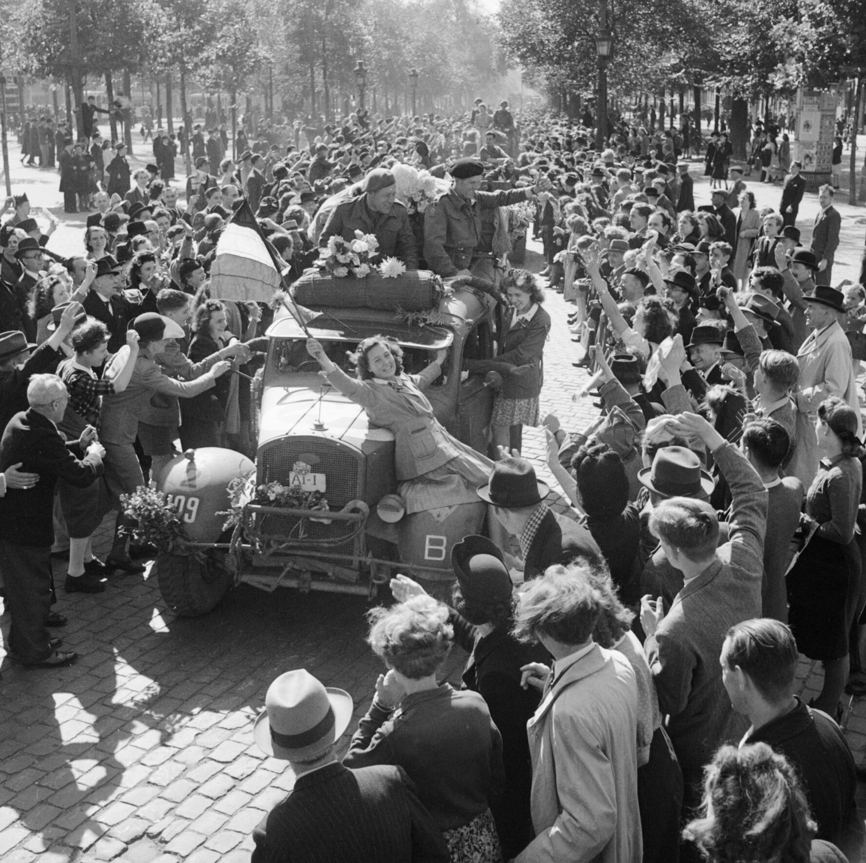 The British Army in North-west Europe 1944-45 Civilians celebrate as British vehicles enter Brussels, 4 September 1944.